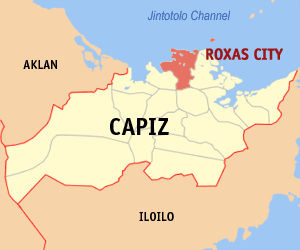 Map of Capiz showing the location of Roxas City